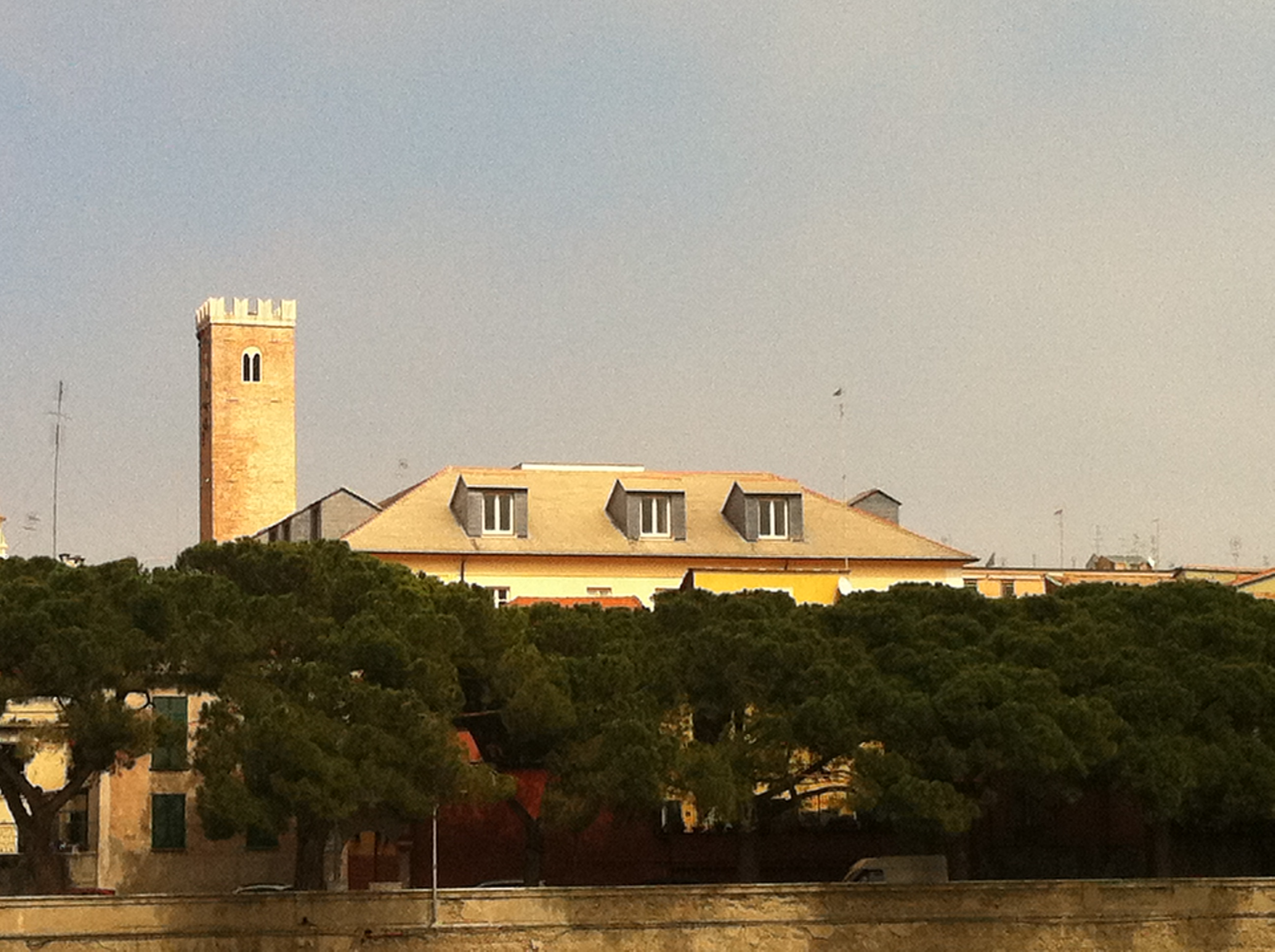 Oddo Palace with the contest of Historic Centre of Albenga